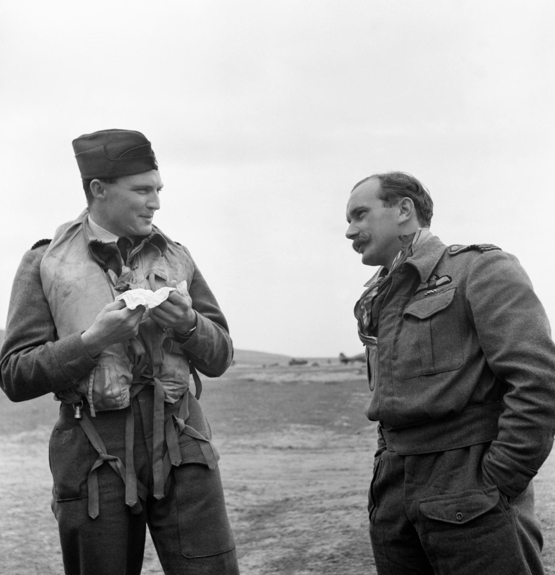 Royal Air Force Operations in the Middle East and North Africa, 1939-1943. Group Captain P H "Dutch" Hugo (left), Commanding Officer of No. 322 Wing RAF, and Wing Commander R "Raz" Berry, who took over leadership of the Wing in January 1943, conversing at Tingley, Algeria. Petrus Hendrik Hugo, a South African, joined the RAF on a short-service commission in February 1939. He flew with No. 615 Squadron RAF during the Battle of France and the Battle of Britain, and became a flight commander in September 1941. He was posted to command No. 41 Squadron RAF in November 1941, and then took over the leadership of the Tangmere Wing in April 1942 but was shot down (for a second time) and wounded shortly after. On recovery Hugo became Wing Leader at Hornchurch, but was soon posted to lead No. 322 Wing in the forthcoming invasion of North Africa (Operation TORCH). He took command of the Wing in November 1942 and added significantly to his victory score over Algeria and Tunisia. From March to June 1943, Hugo served on the staff at HQ North-West African Coastal Air Force, but returned to command 322 Wing in Malta, Sicily, France and Italy until it disbanded in November 1944. Having achieved 17 confirmed and 3 shared victories, he then joined the staff HQ Mediterranean Allied Air Forces and finished the war flying with the Central Fighter Establishment.